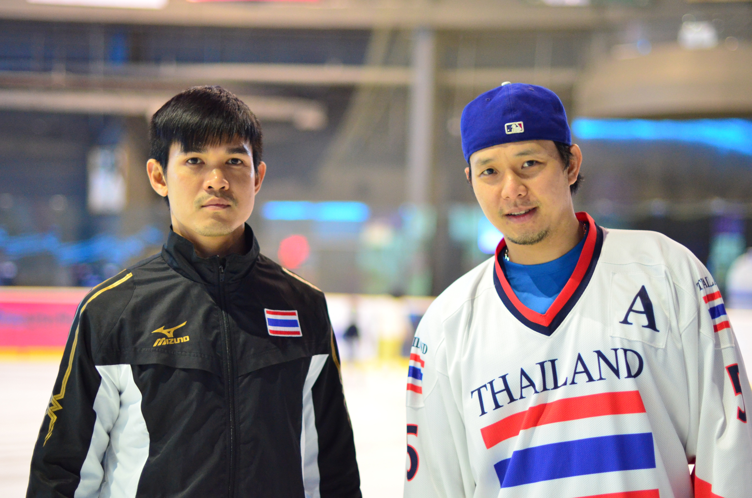 Teerasak & Tewin